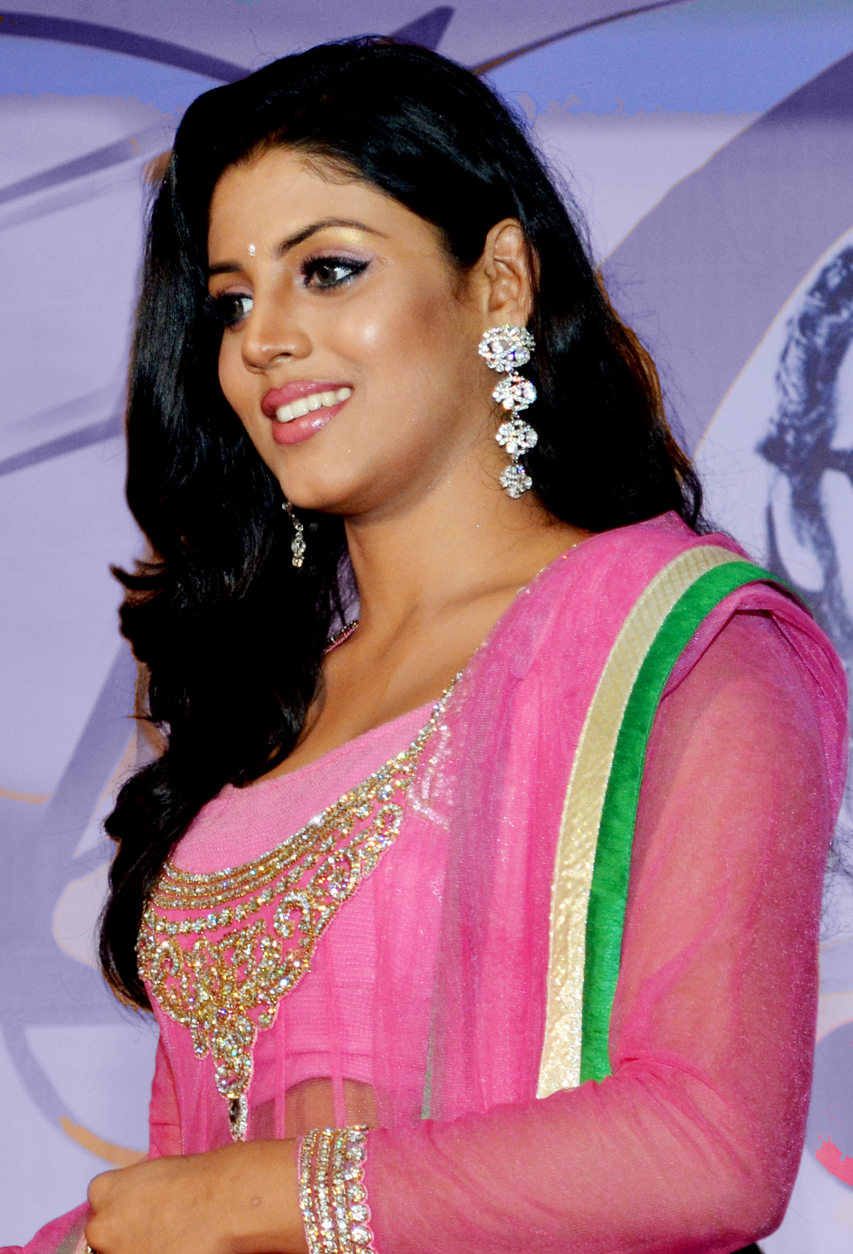 Actress Iniya